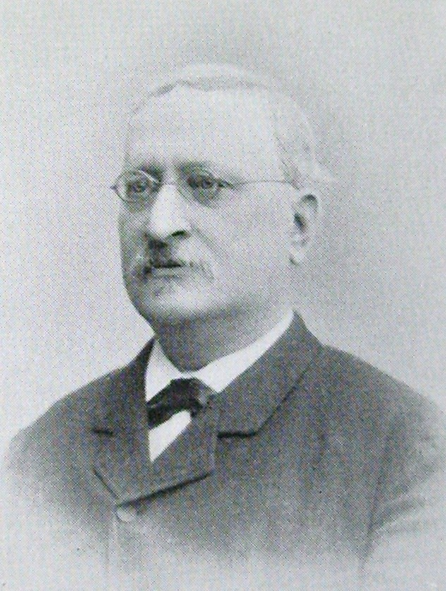 Picture of Ernst Salén, Swedish politician